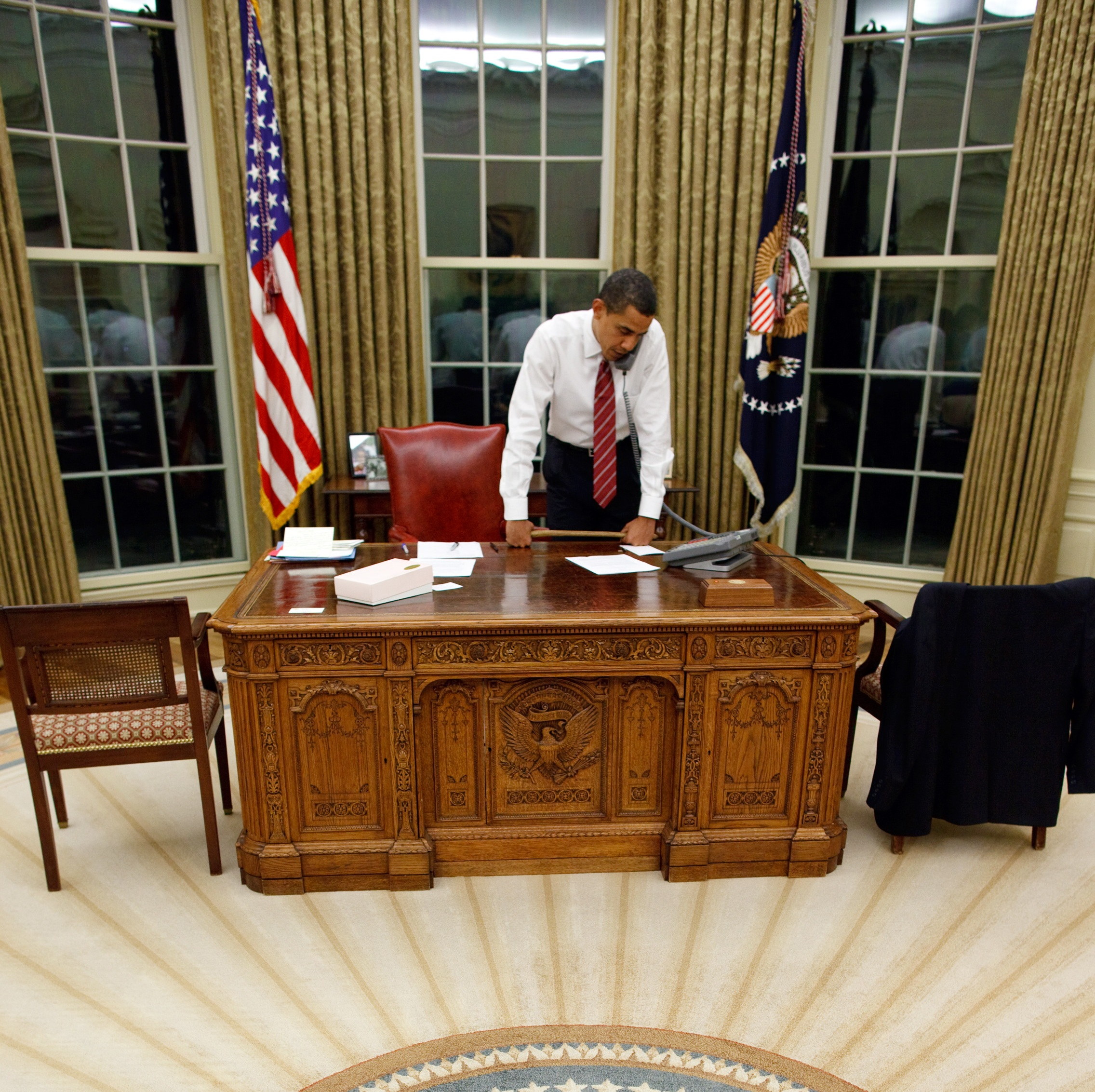 President Barack Obama in the Oval Office 1/30/09.